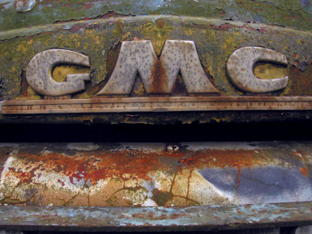 Grill detail of a rusted tow truck in Florence, South Carolina, USA.